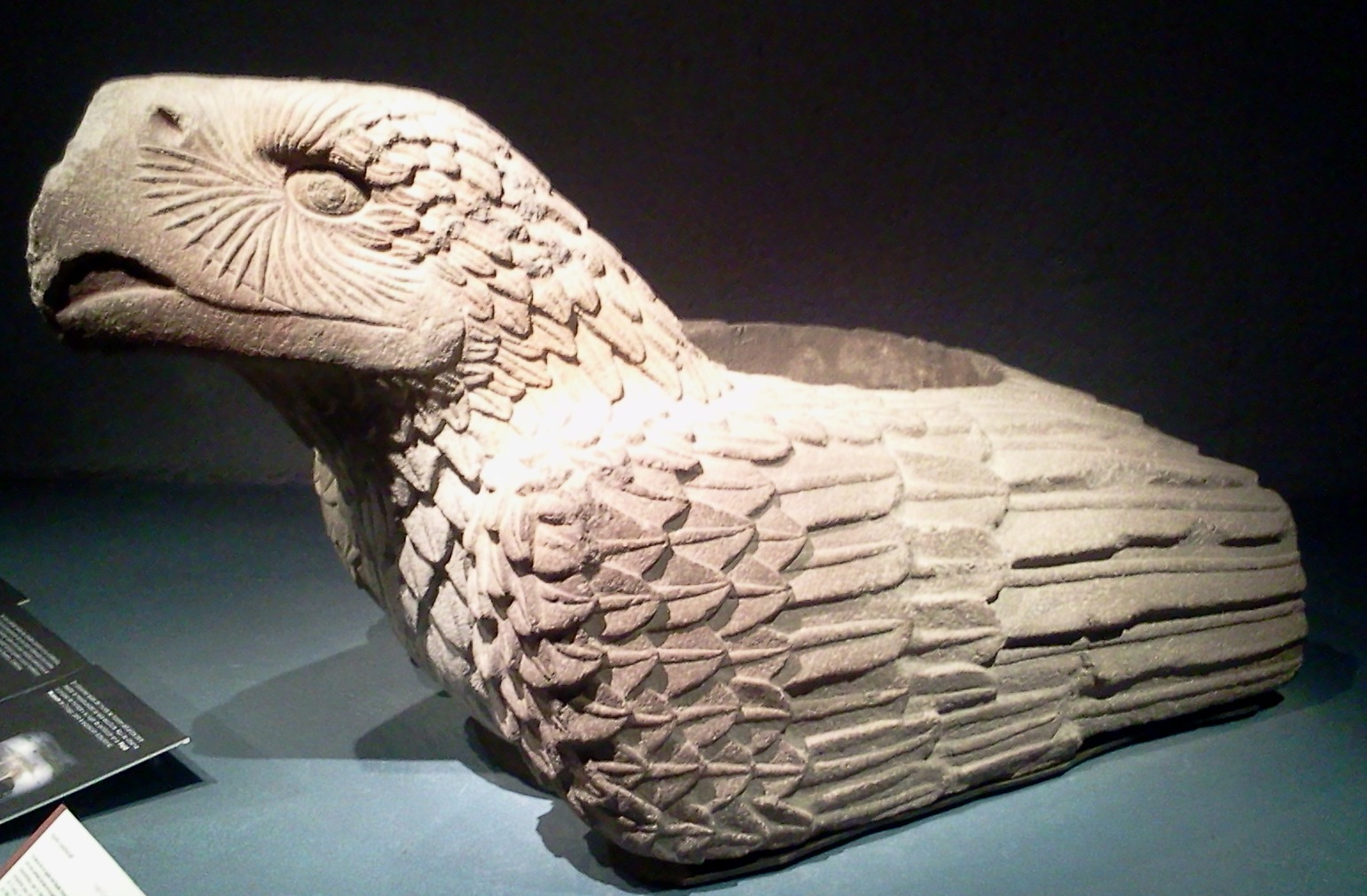 Cuauhxicalli of and eagle, Templo Mayor